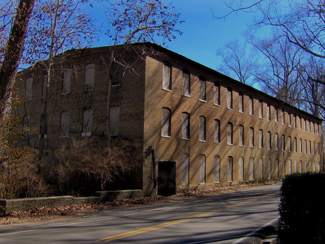 The Great Falls Cotton Mill at Rock Island State Park in Tennessee, located in the Southeastern United States. The mill was built around 1892 by the Falls City Cotton Mill Company, which built a small company town known as Falls City in its vicinity. The mill was added to the National Register of Historic Places in 1982.